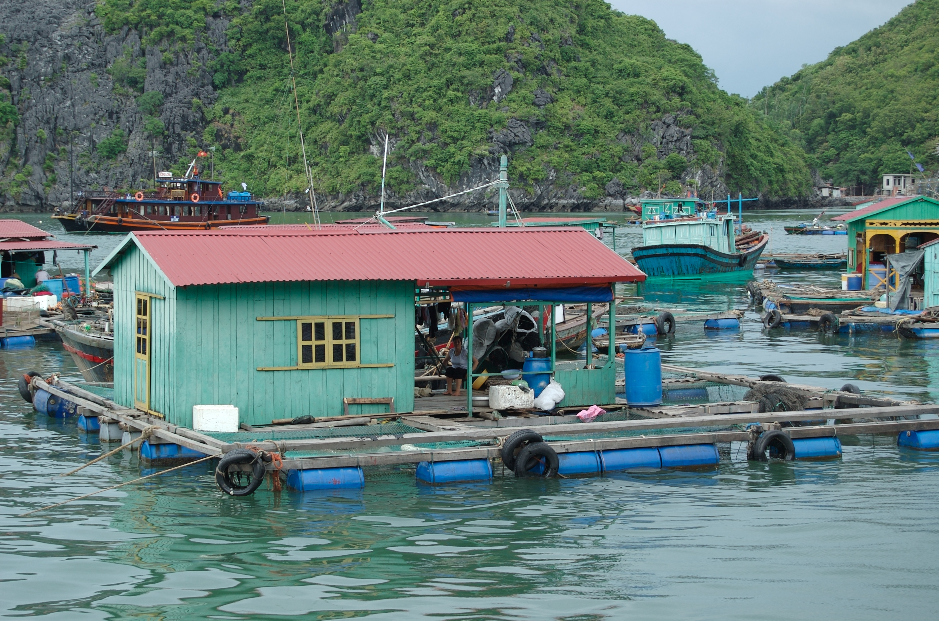 A floating village in Ha Long Bay.